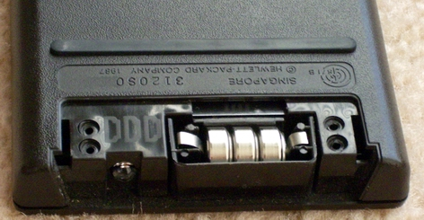 Back of an HP-42S showing the battery compartment and the infrared LED which communicates to a printer.